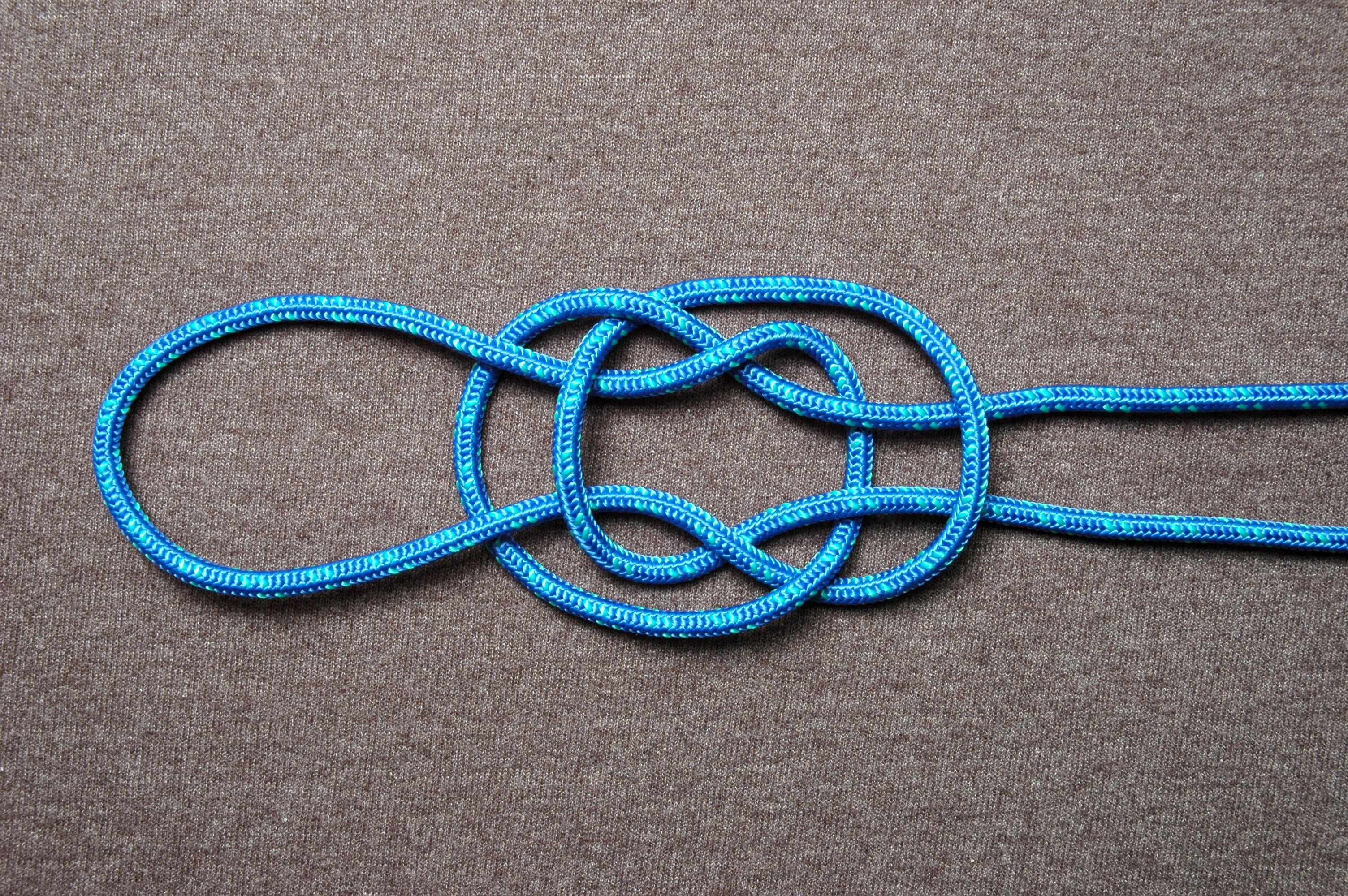 Image showing the completed bottle sling knot. Last of 4 images. (ABOK #1142)